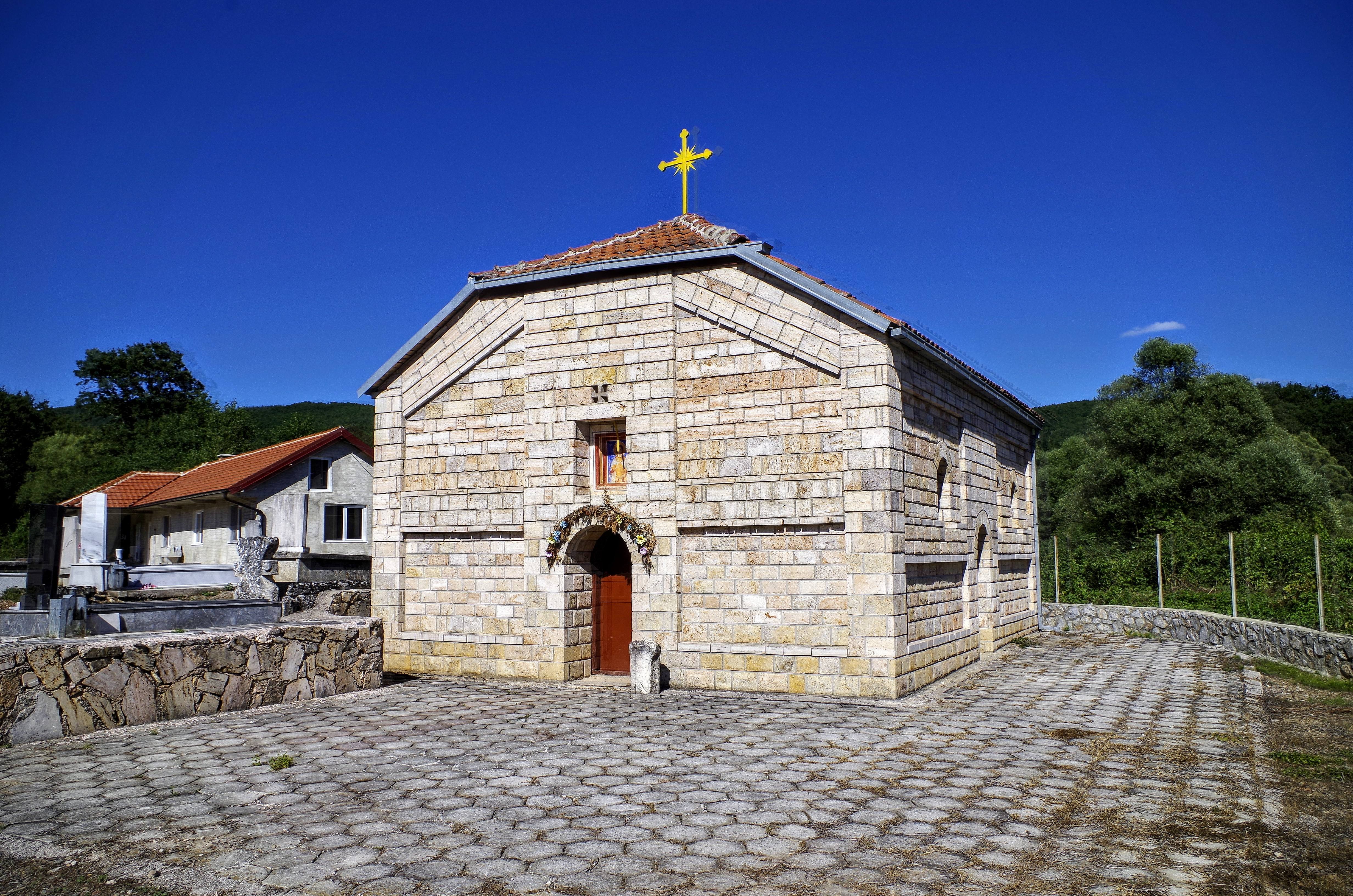 View of the St. Demetrious Church in the village Izdeglavje